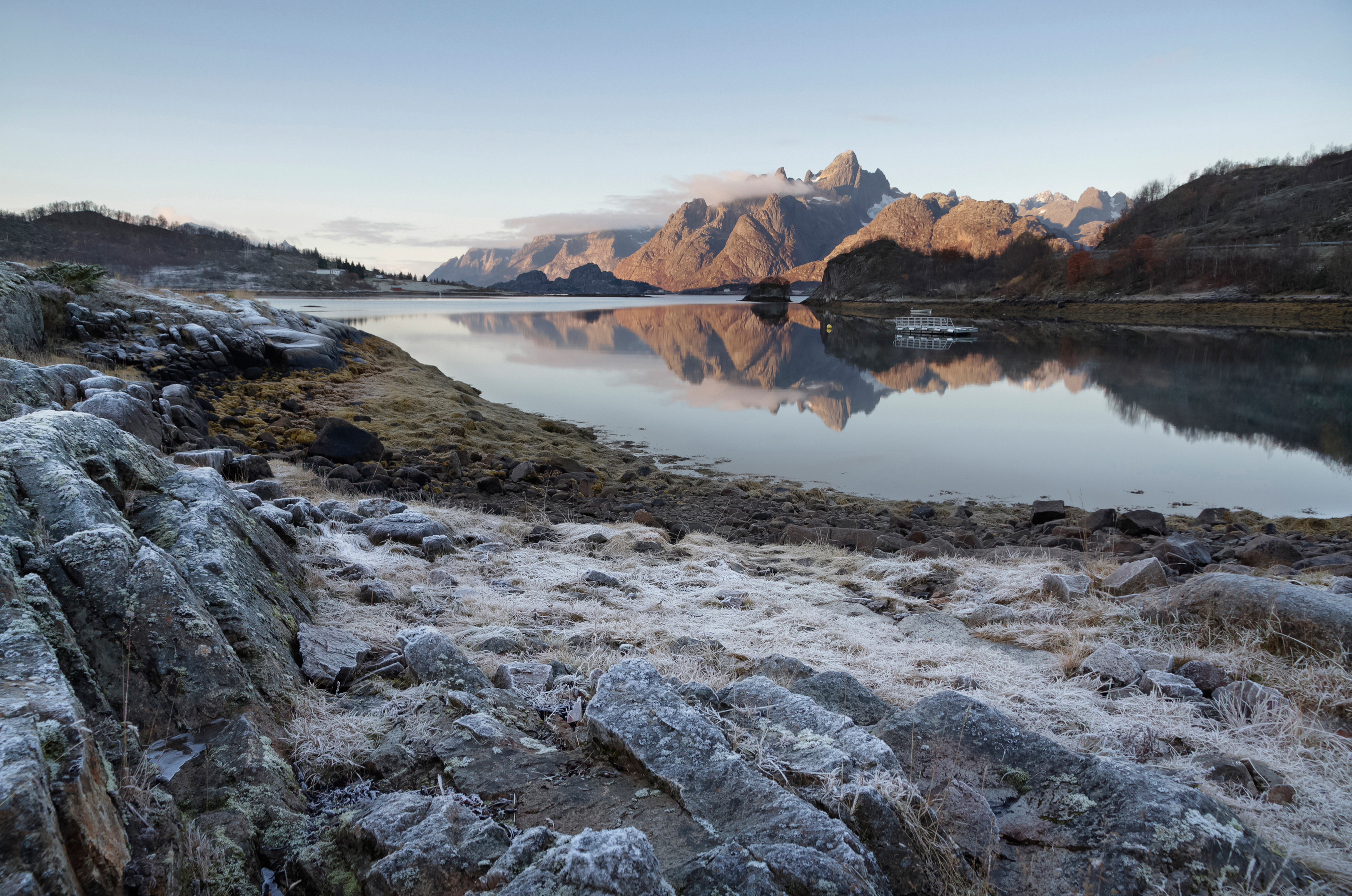 A morning view towards Raftsundet and Trolltindan from a bay of Tennfjorden in 2012 October. The ground is covered with hoar frost due to cold weather. The frost severity has been somewhere between slight and severe frost.